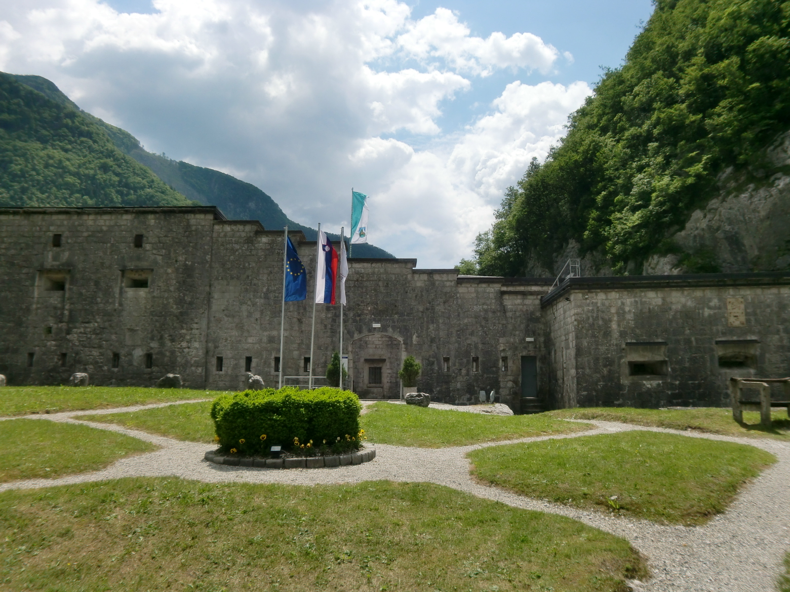 Fort Flitsch/Fort Kluže near Bovec (Slovenia)